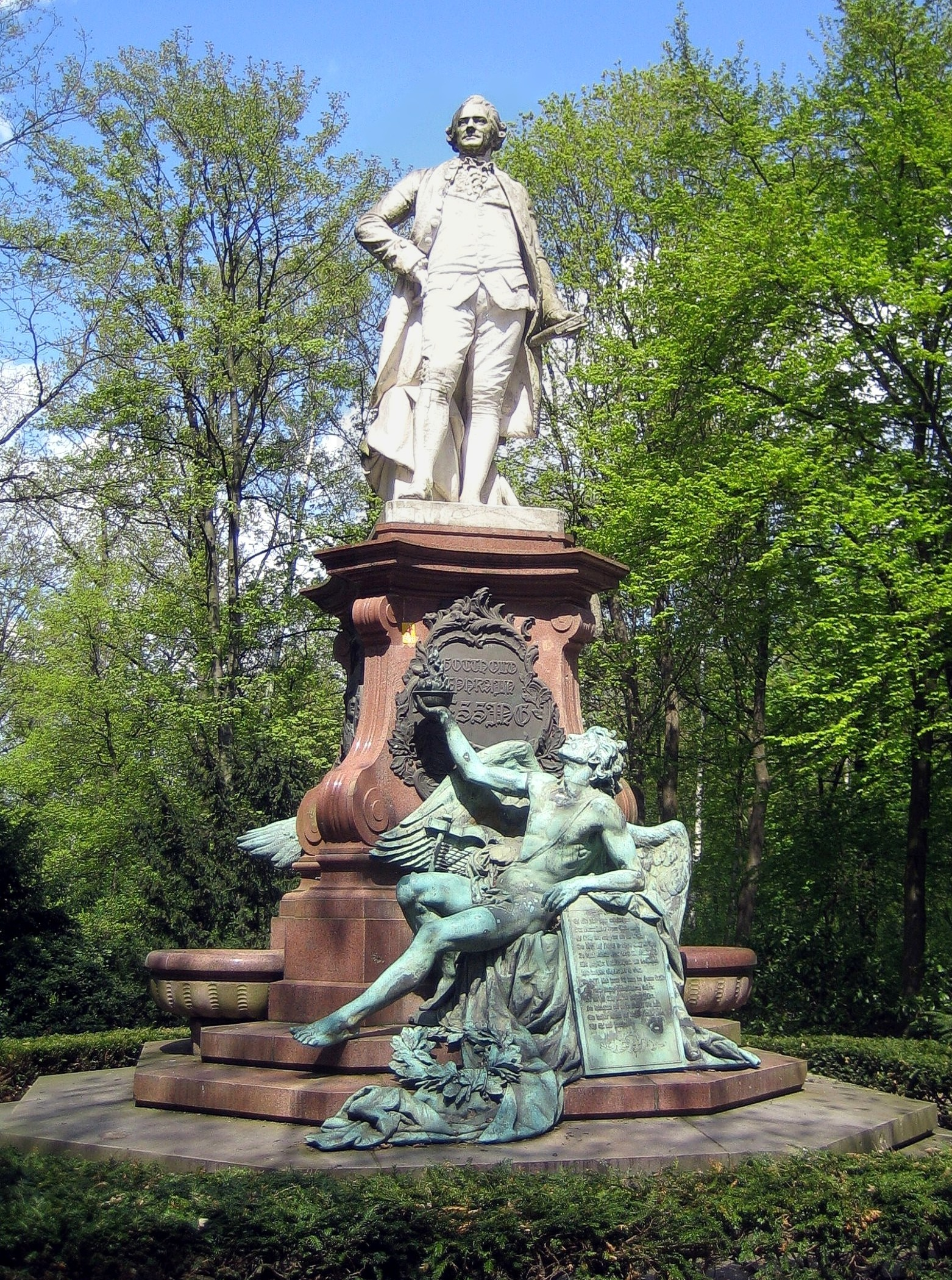 Berlin, Tiergarten. Memorial for Gotthold Ephraim Lessing. Total view.